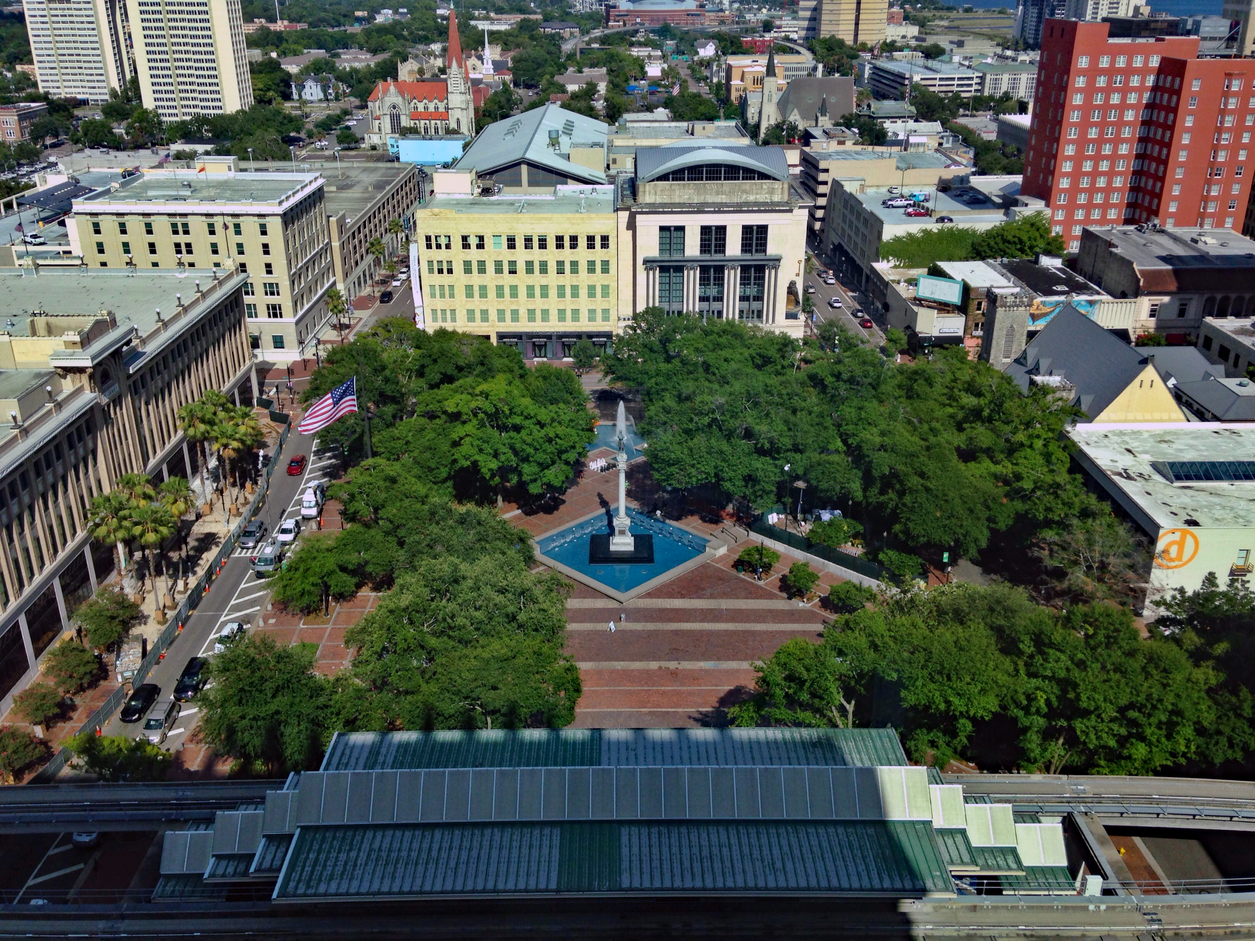 Hemming Park, Downtown, Jacksonville, Florida 32202